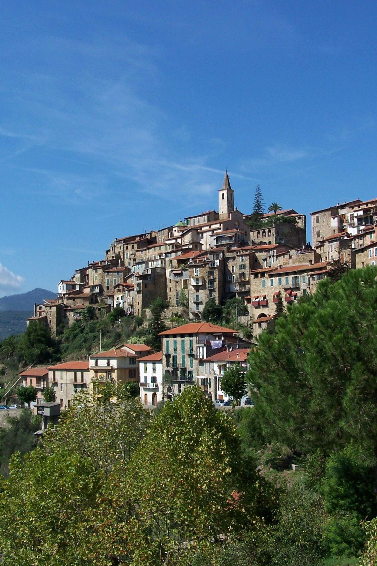 Apricale in Italy